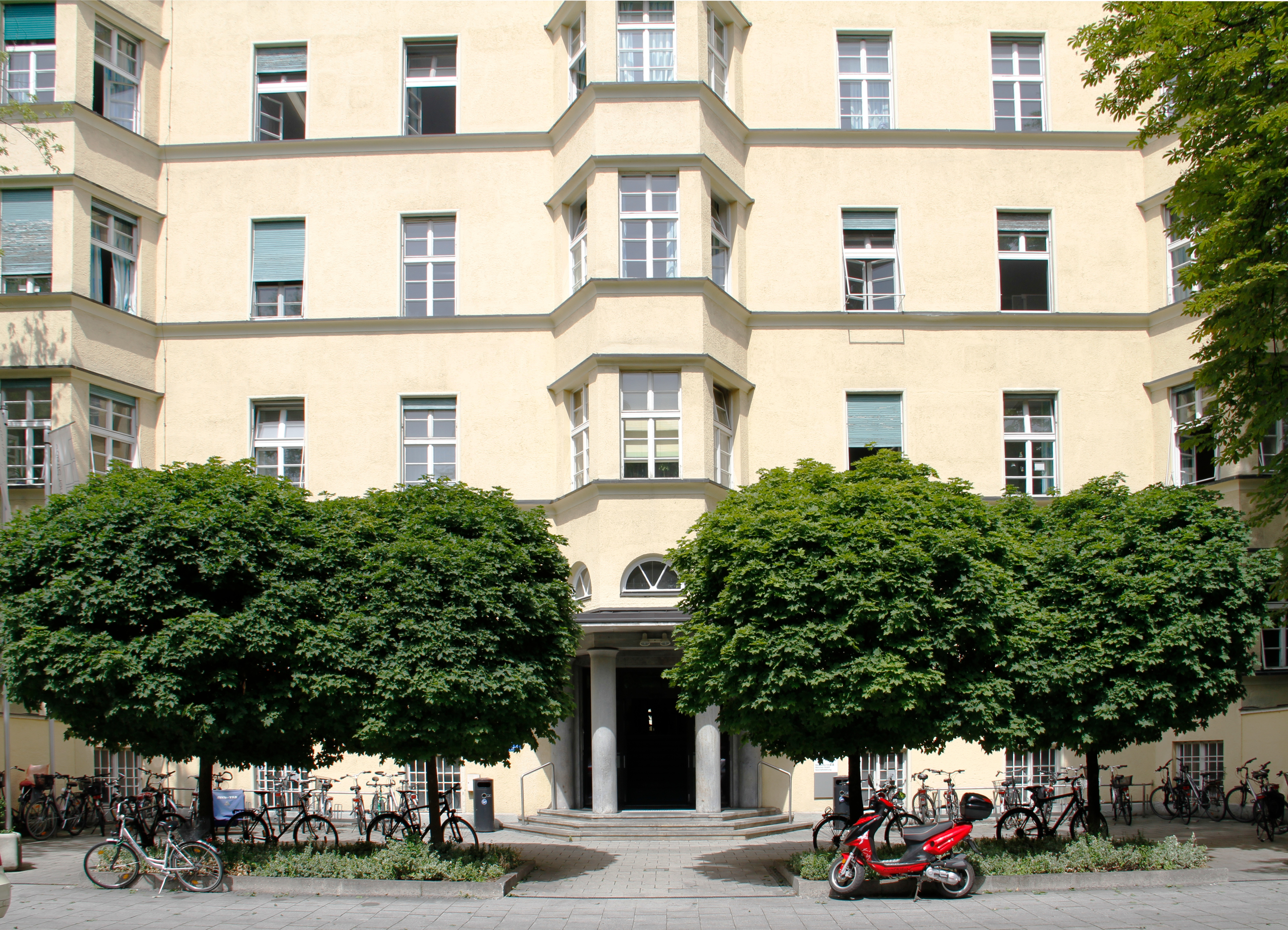 Hospital Thalkirchner Strasse, Munich, German. Build in 1926-28 by Richard Schachner and Hans Grässel. Main entrance on eastern facade